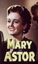 Cropped screenshot of Mary Astor from the trailer for the film Fiesta